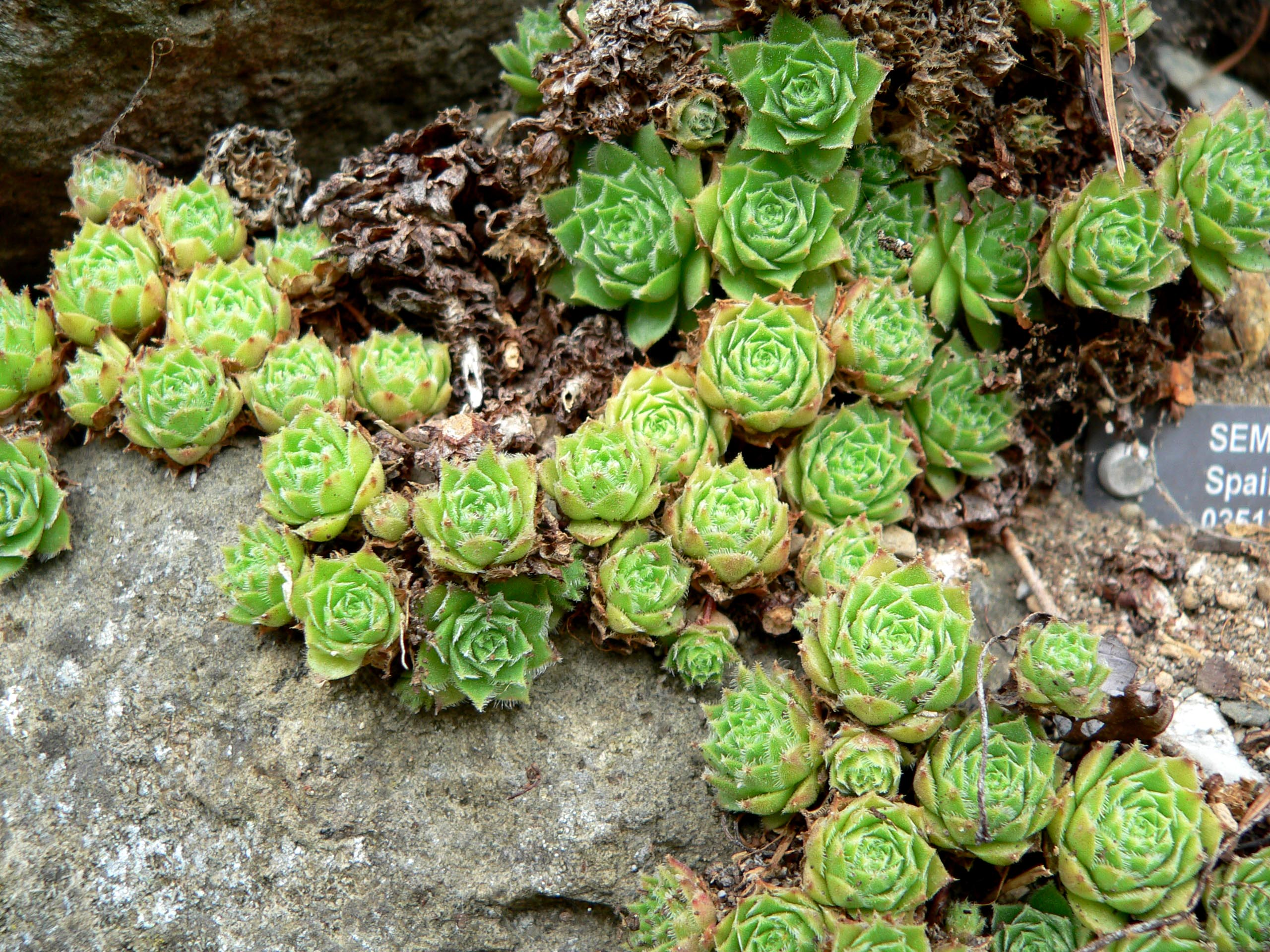 Photo of Sempervivum nevadense var. hirtellum at the UBC Botanical Garden in Vancouver